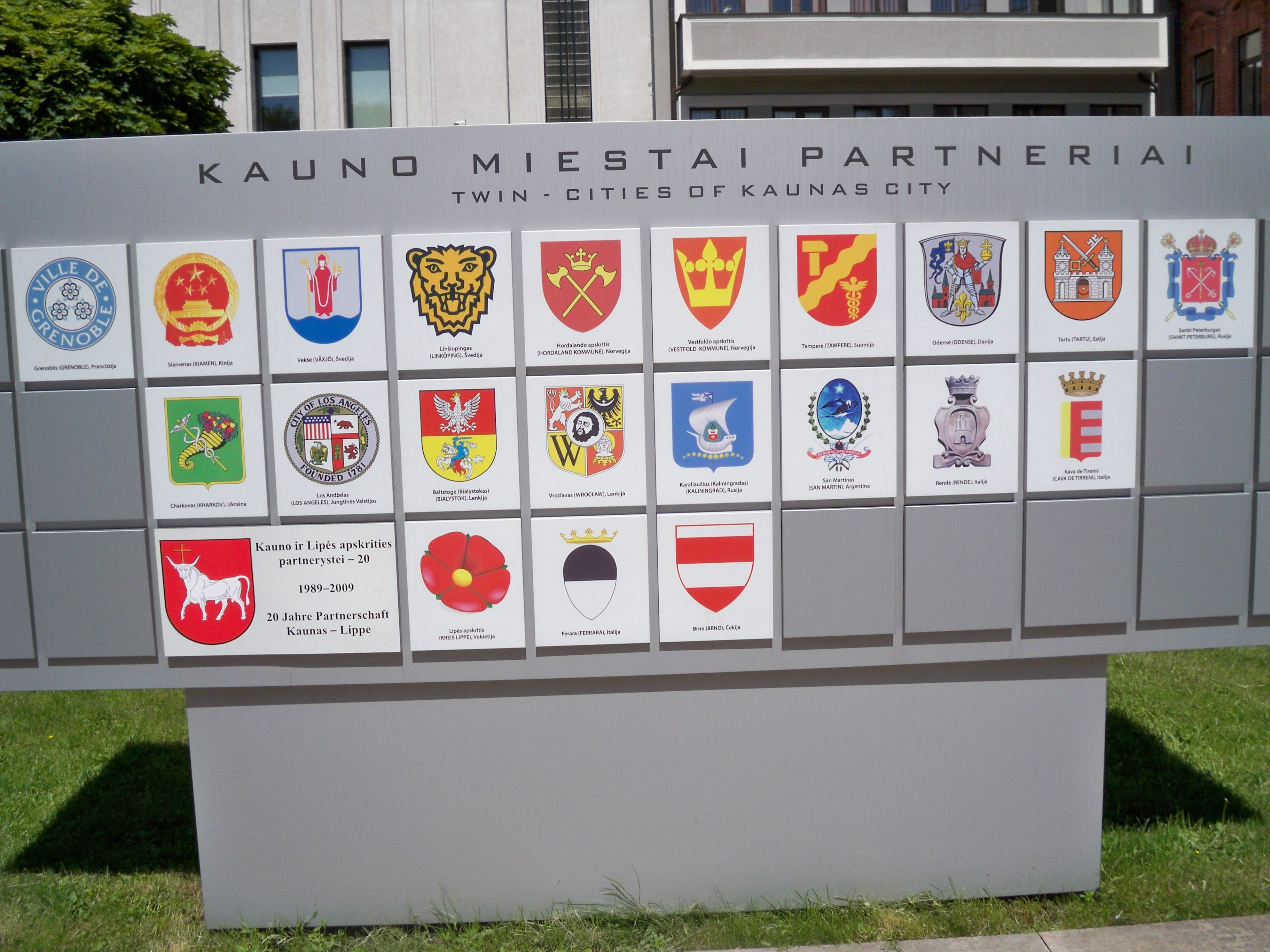 Coats of arms of Kaunas twin cities, in front of municipality.